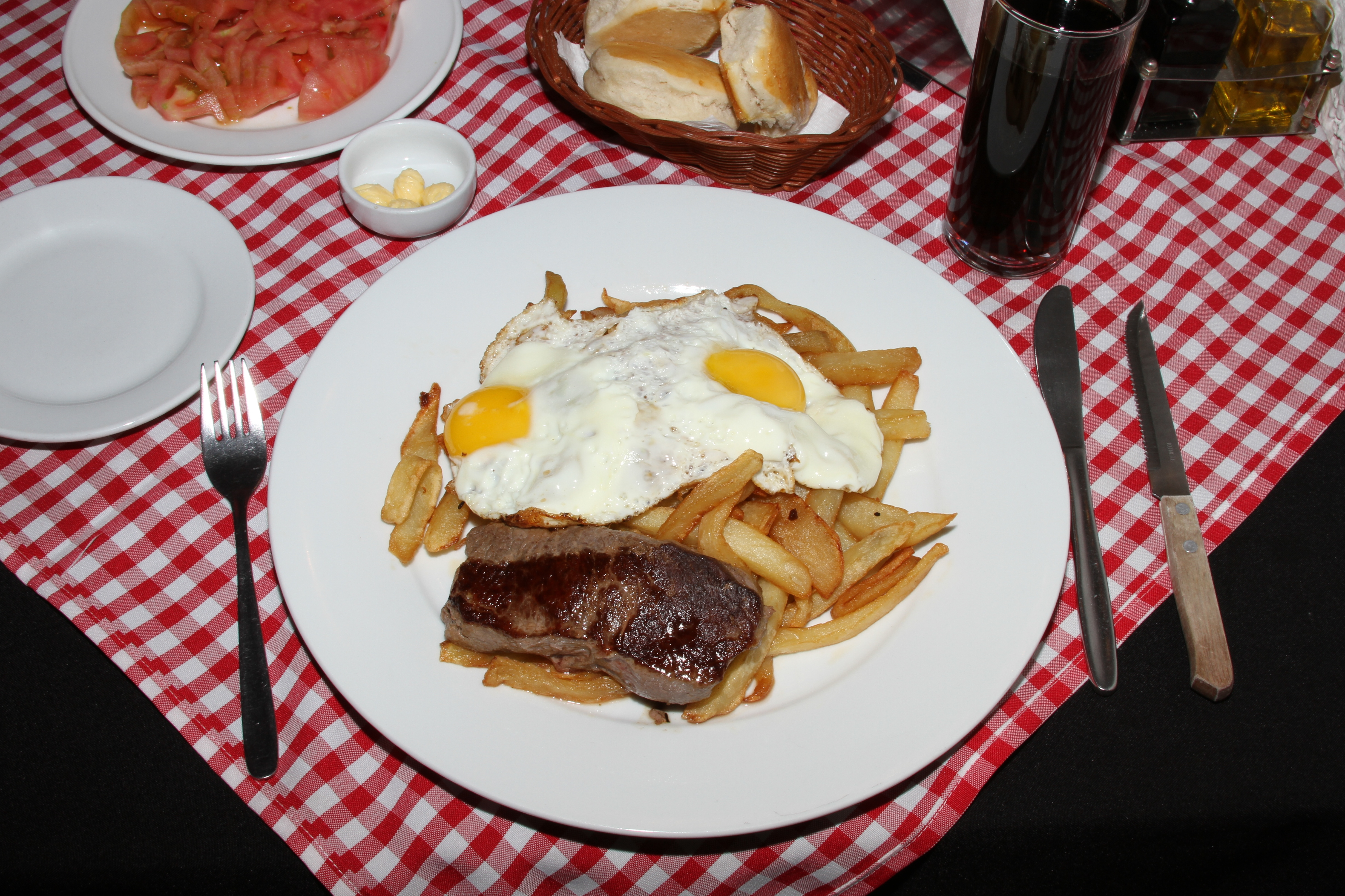 Lomo a lo pobre (or perhaps bistek a lo pobre) served in an above-average quality restaurant in Chile. The onions were served underneath the eggs and are not visible in the photograph.